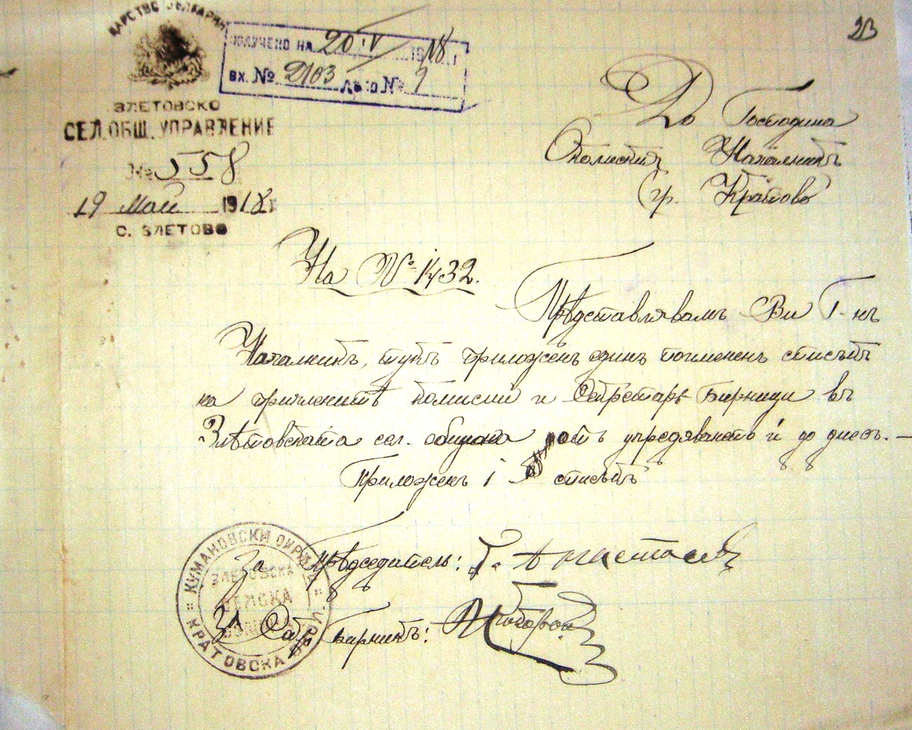 Document stamped by Zletovska rural municipality, May 19, 1918. This media file is produced by Wikipedian in Residence in Category:Wikipedian in Residence at DARM in 2016.